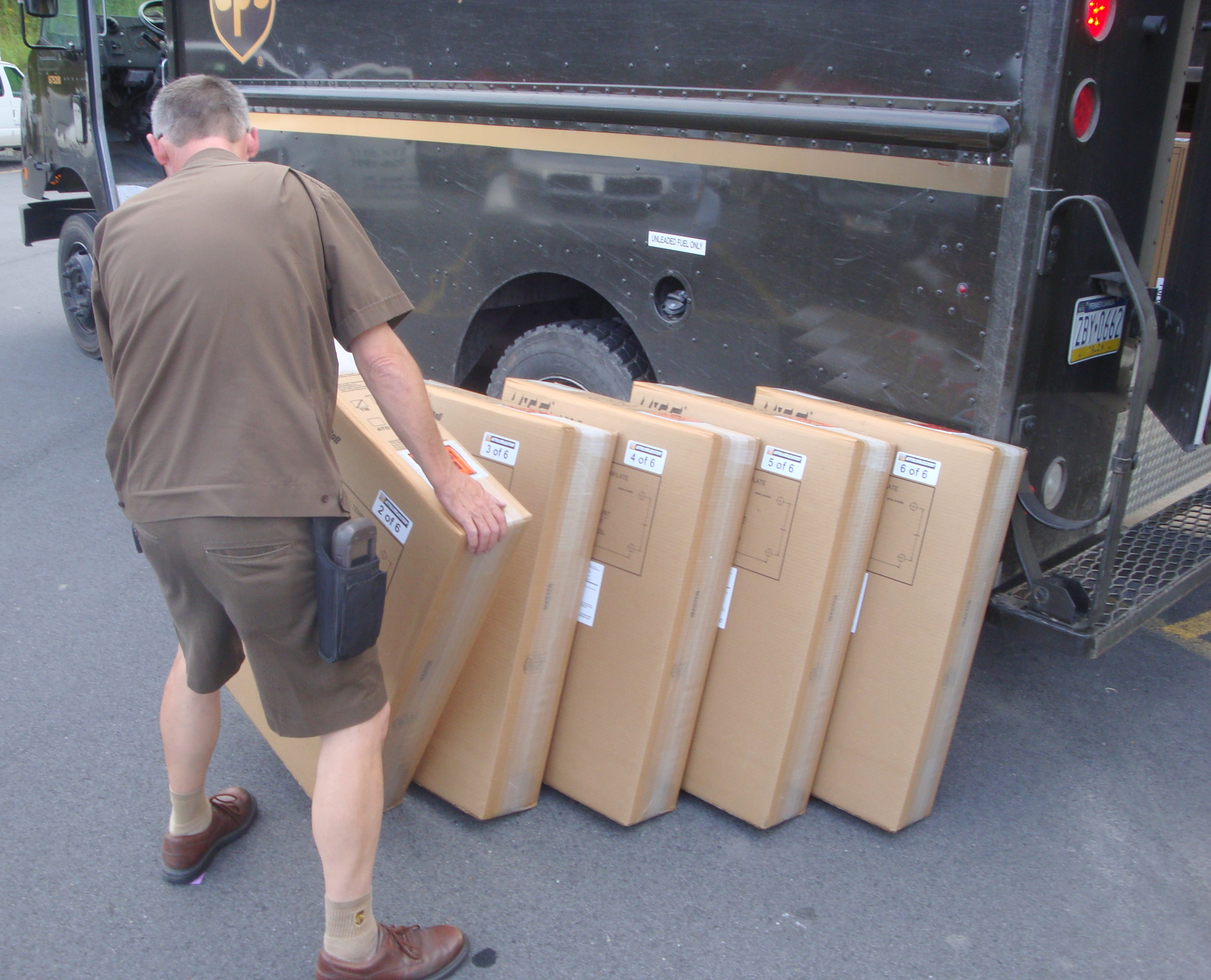 UPS driver re-checks and confirms HTS shipping labels.